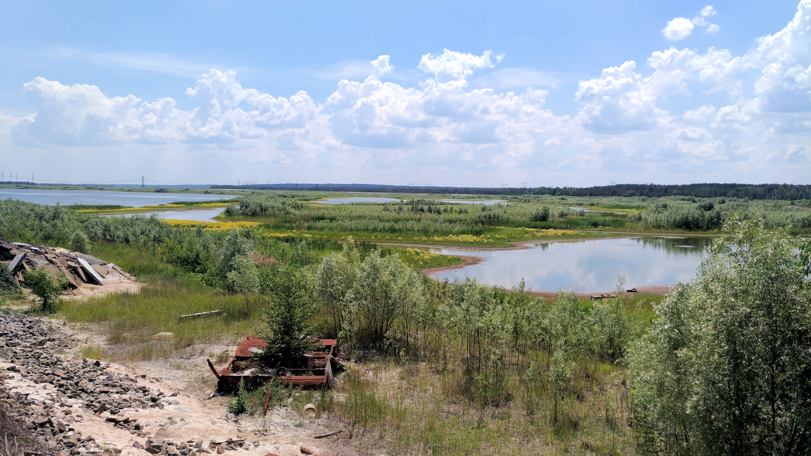 Fish and rabbit farm near Pripyat, June 2019.